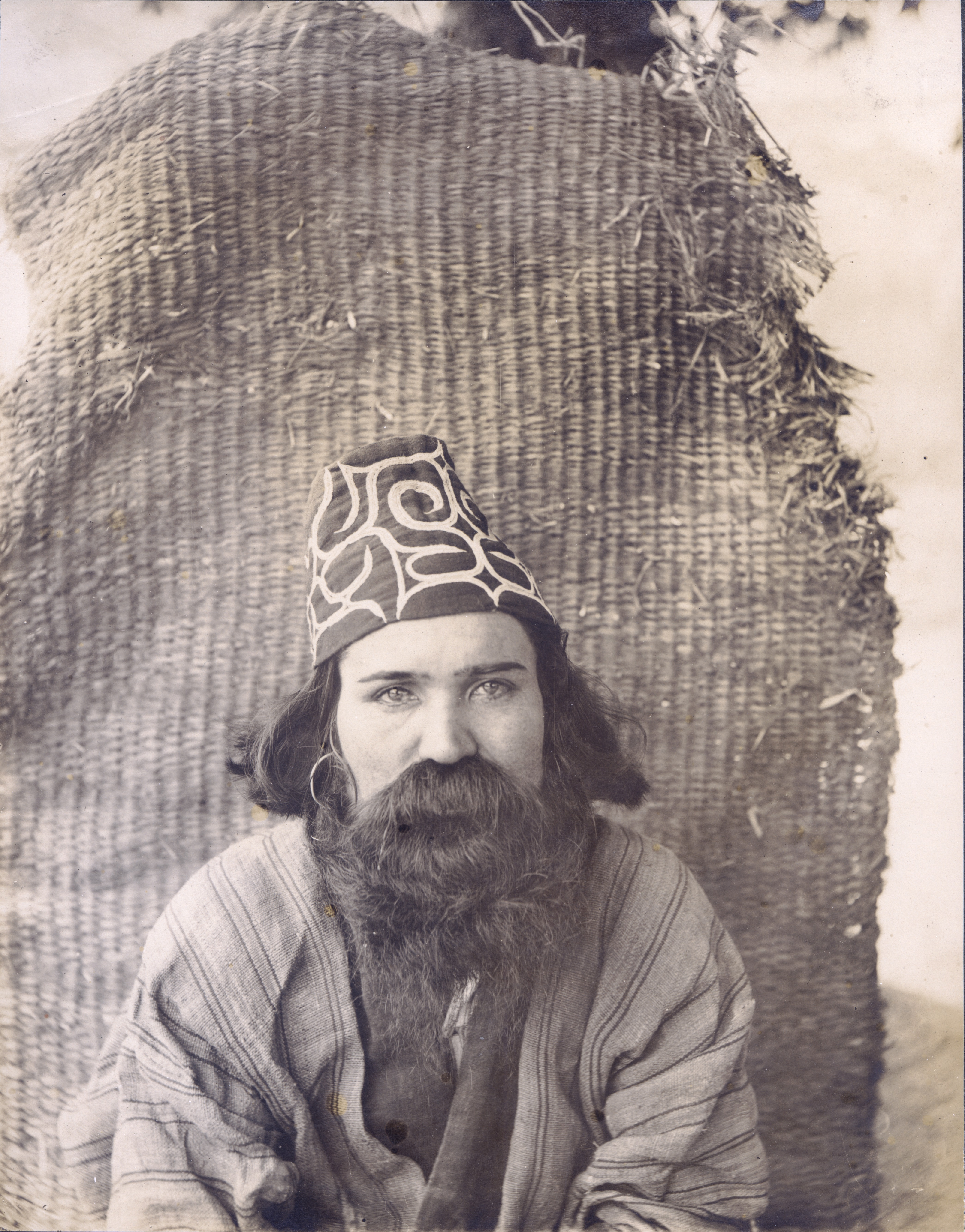 Title: "Ainu leader." Department of Anthropology, Japanese exhibit, 1904 World's Fair.